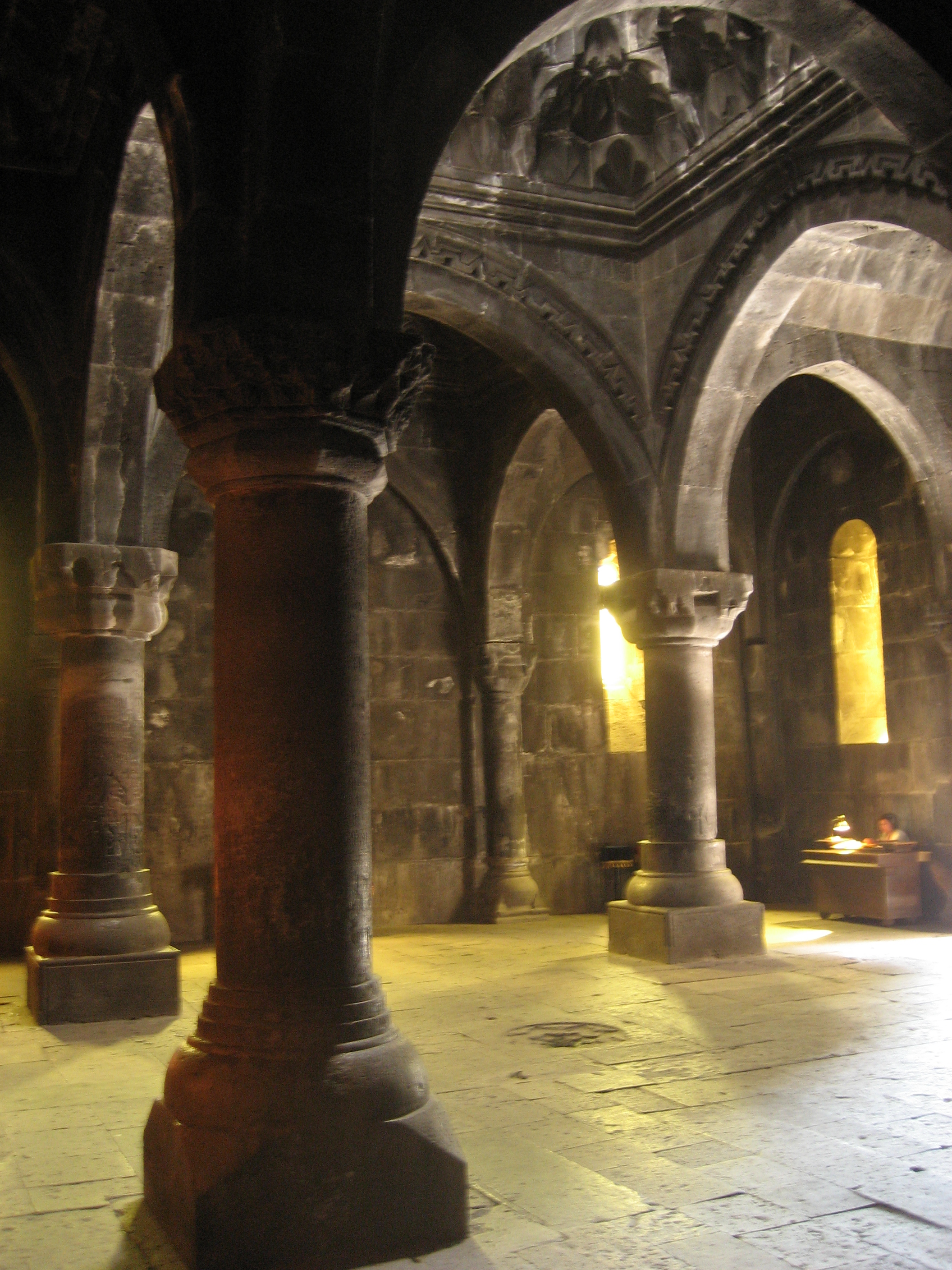 Gavit of Geghard Monastery in Armenia (UNESCO World Heritage Site).